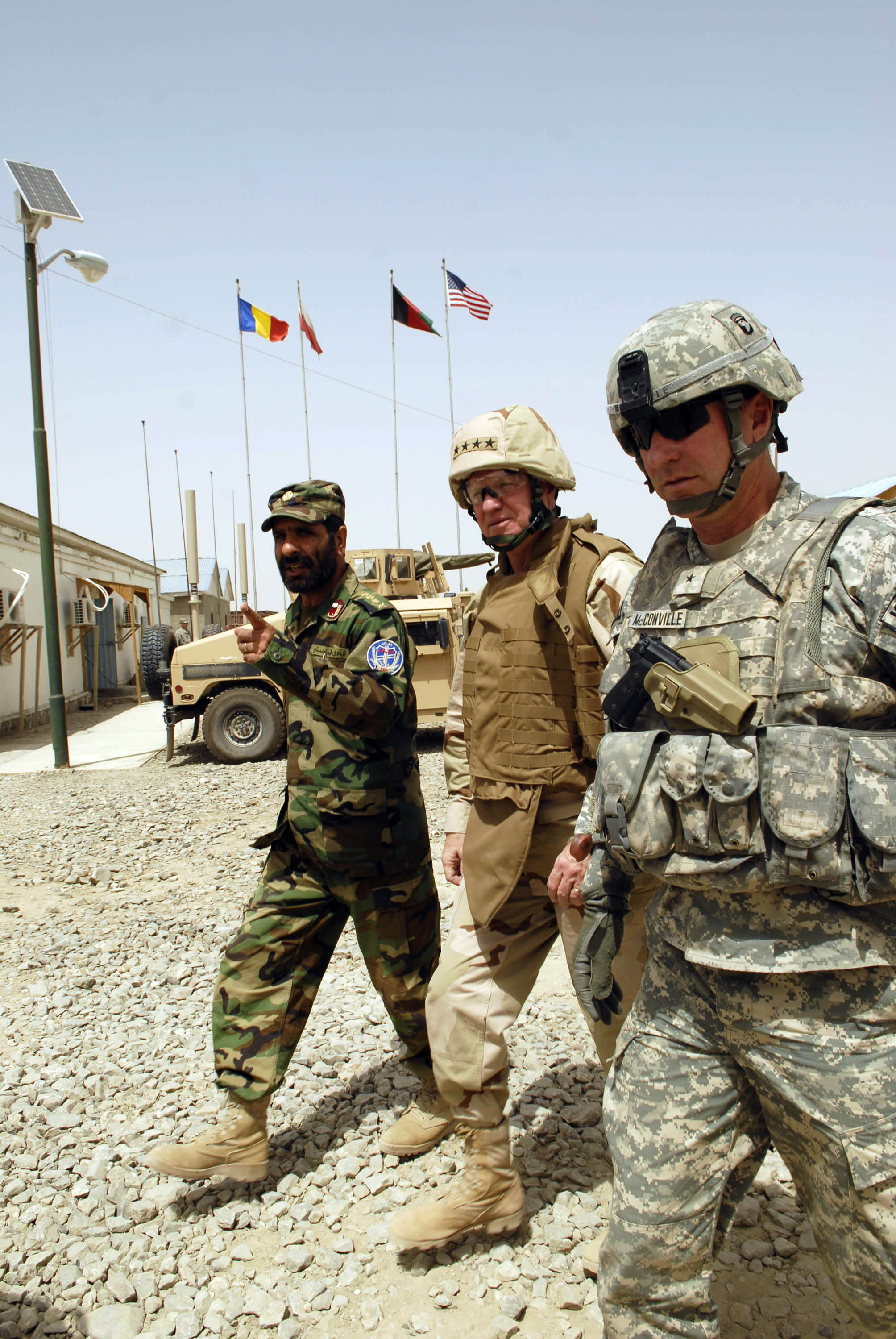 AFGHANISTAN (Aug. 15, 2008) Chief of Naval Operations (CNO) Adm. Gary Roughead, middle, tours a Provincial Reconstruction Team (PRT) site with other U.S. and Afghanistan leadership while visiting with Sailors, Airmen and Soldiers of FOB Rushmore. Roughead, along with Master Chief Petty Officer of the Navy (MCPON) Joe R. Campa Jr., traveled throughout the Central Command area of responsibility to visit Sailors, thank them for their contributions and hear their thoughts firsthand. (U.S. Navy photo by Mass Communication Specialist 1st Class Tiffini M. Jones/Released)